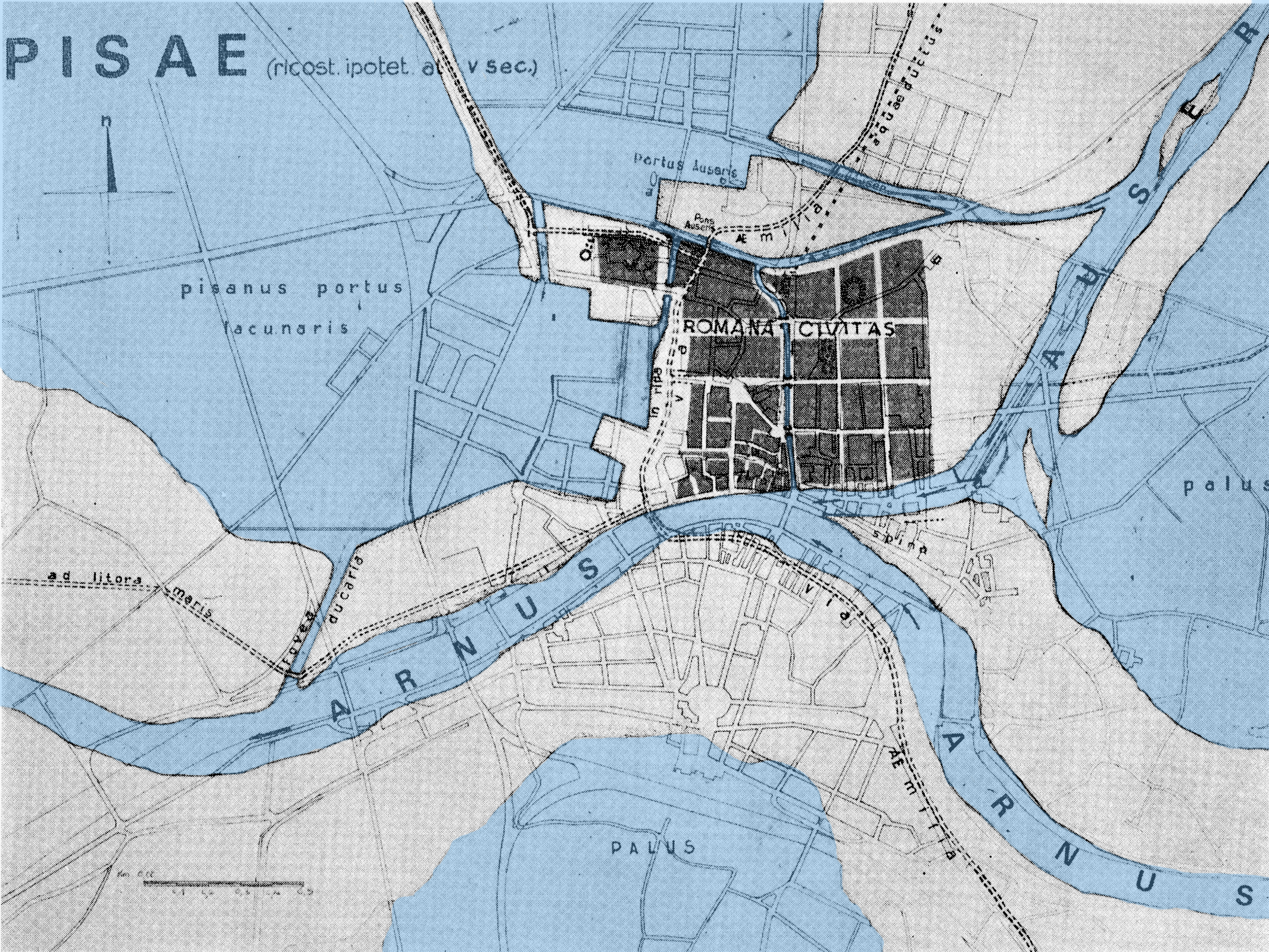 Hypotetic map of Pisa in V century a.C.. The watersides are been highlighted to show why Pisa was a maritime city.